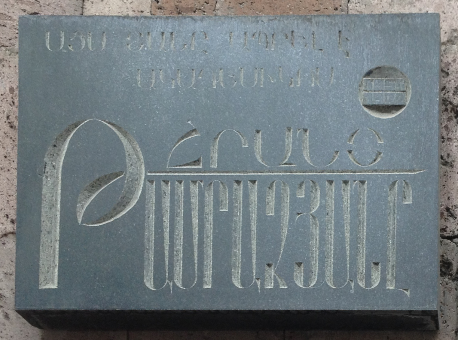 Plaque to Hrant Tamrazyan (Taryan Street, Yerevan)